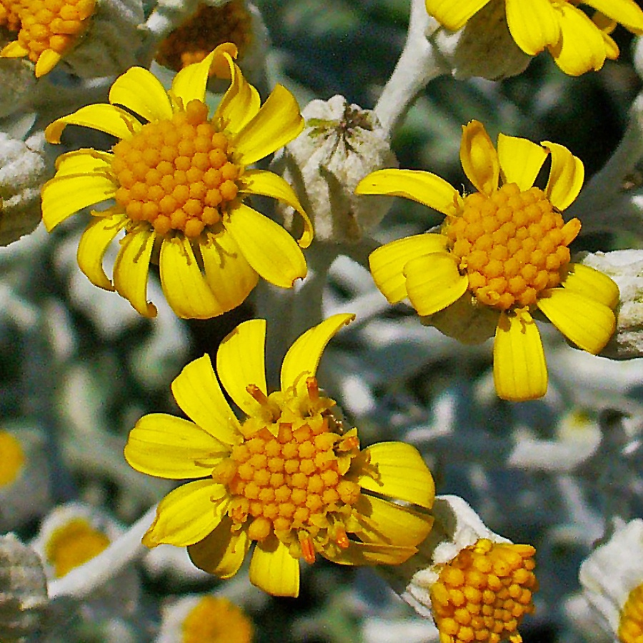 Senecio cineraria, Asteraceae, Dusty Miller, inflorescences.